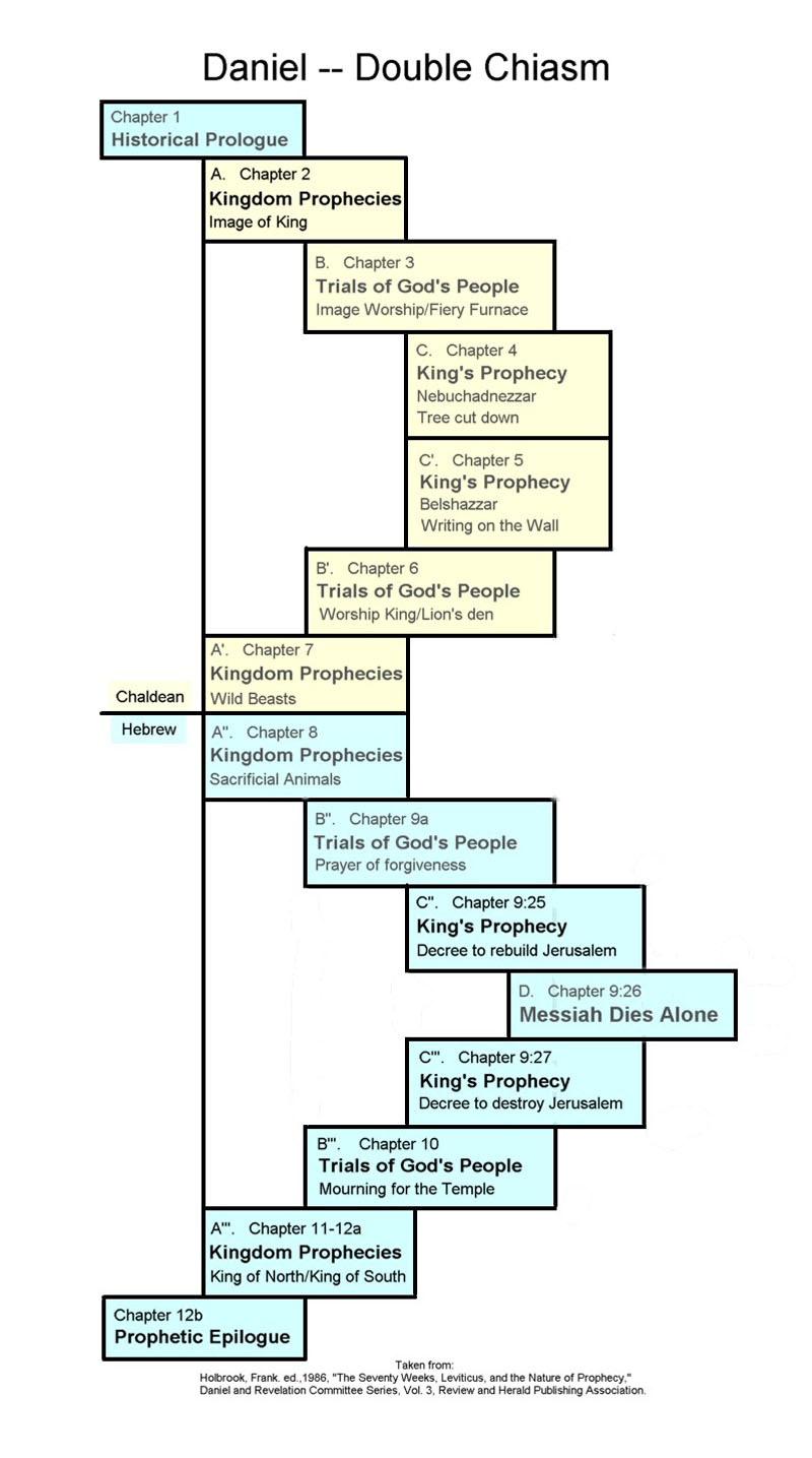 Illustrates Double Chiasm of the book of Daniel showing parallels of subject matter.